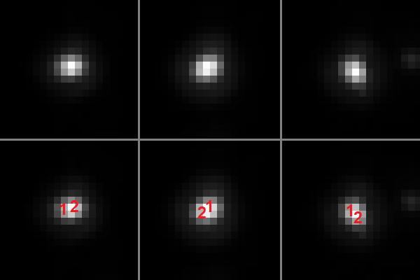 The separation between the two components is only about half the diffraction limit of the Hubble Telescope, making it impossible to fully resolve the system. The system instead appears elongated, revealing its binary nature. In the image, the positions of the components has been marked "1" and "2". Sample images used: J8RL04011, taken 2006-07-06 J8RL08011, taken 2003-08-23 J8RL09011, taken 2004-05-26 Each image is a 2440s exposure of Hubble's ACS instrument, using the F606W filter. The native image resolution is 0.025 arc-seconds per pixel.